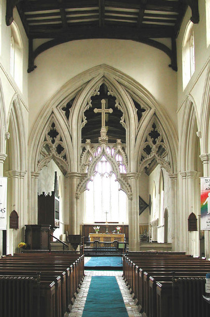 St Mary the Virgin, Stebbing, Essex - East end